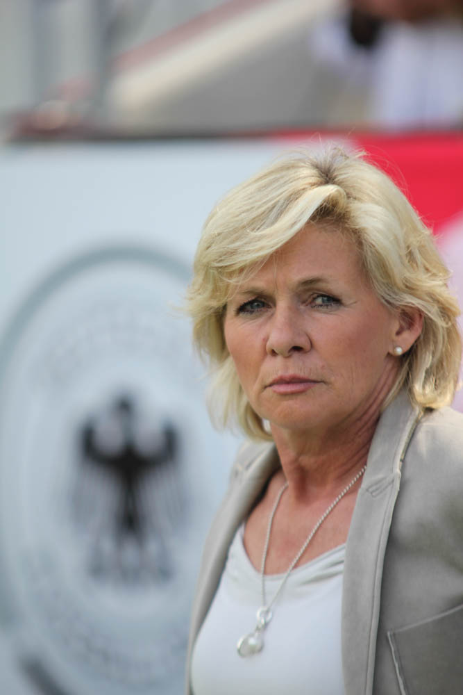 German football manager Silvia Neid